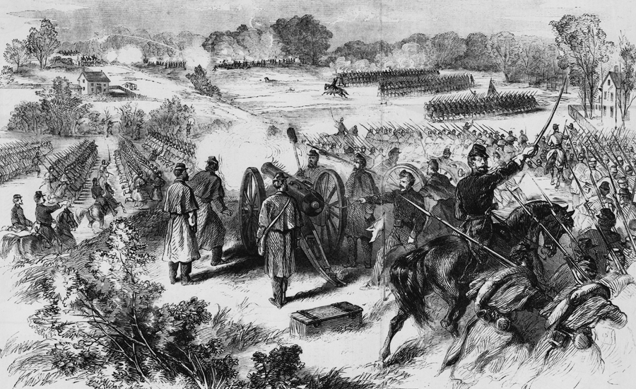 TITLE: Battle of Dranesville, Va., December 20th, between the national forces commanded by Generals McCall and Ord, and a superior rebel force led by General Stewart - rout of the rebels with heavy loss / from a sketch by our special artist.